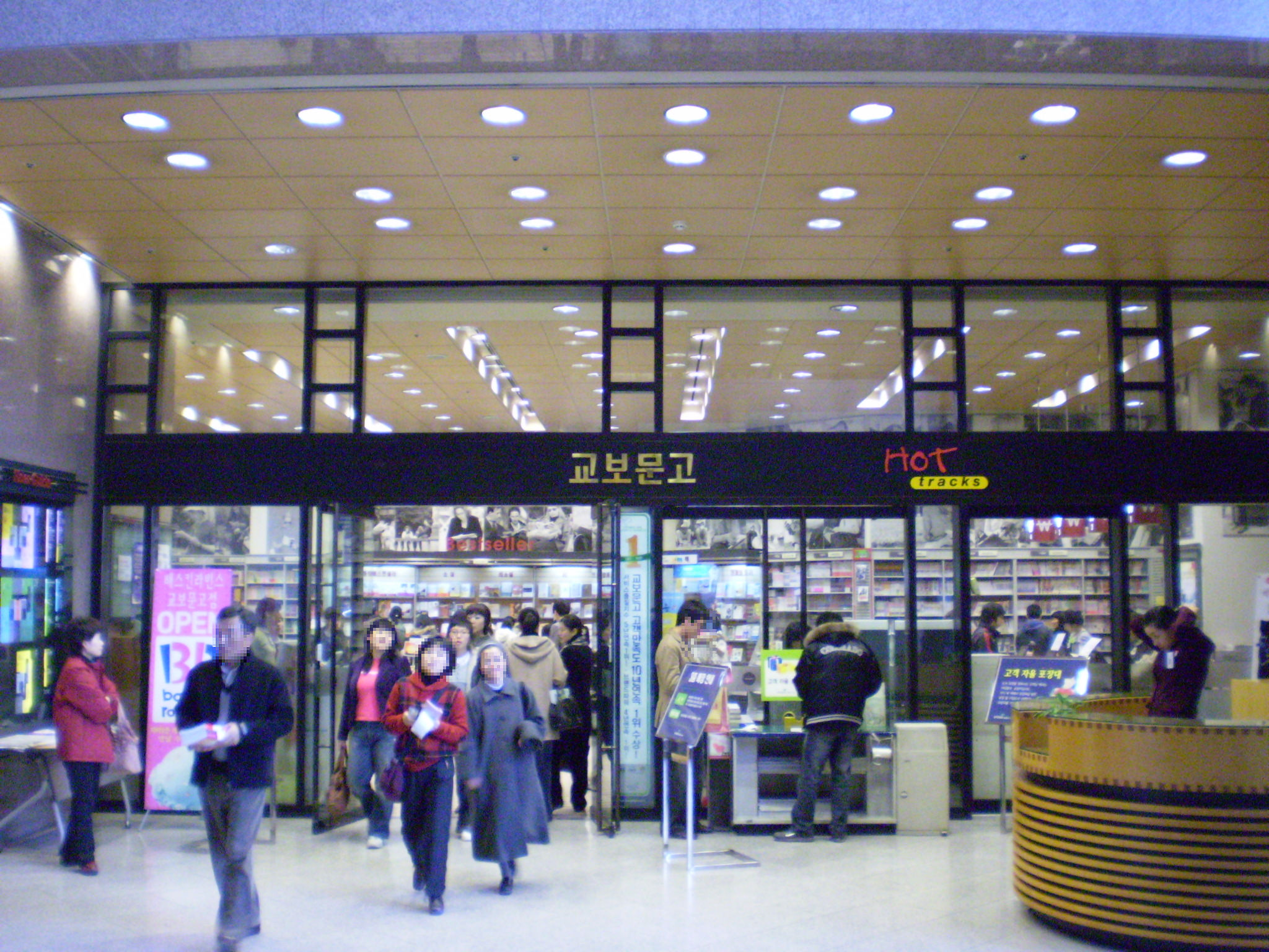 Kyobo Bookstore in Daegu, South Korea.